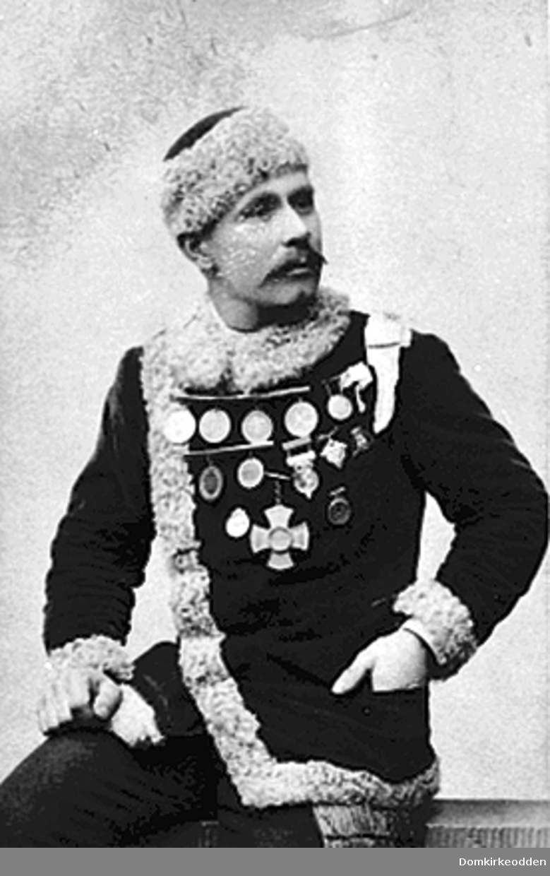 Edvin Paulsen